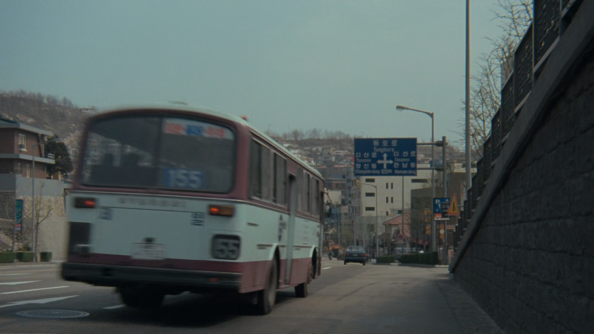 현대 RB520L 후면